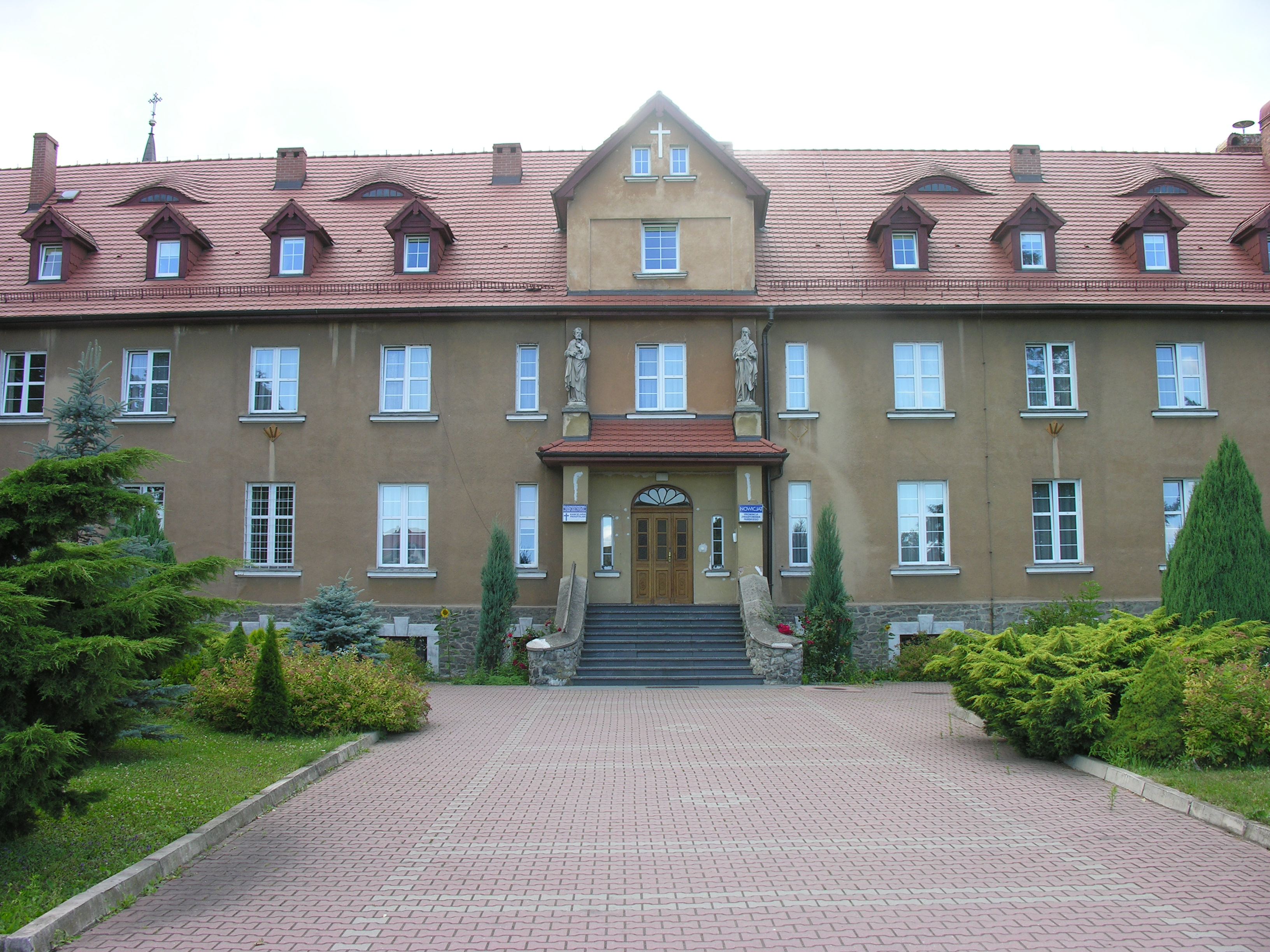 Klasztor Pallotynów w Ząbkowicach Śląskich